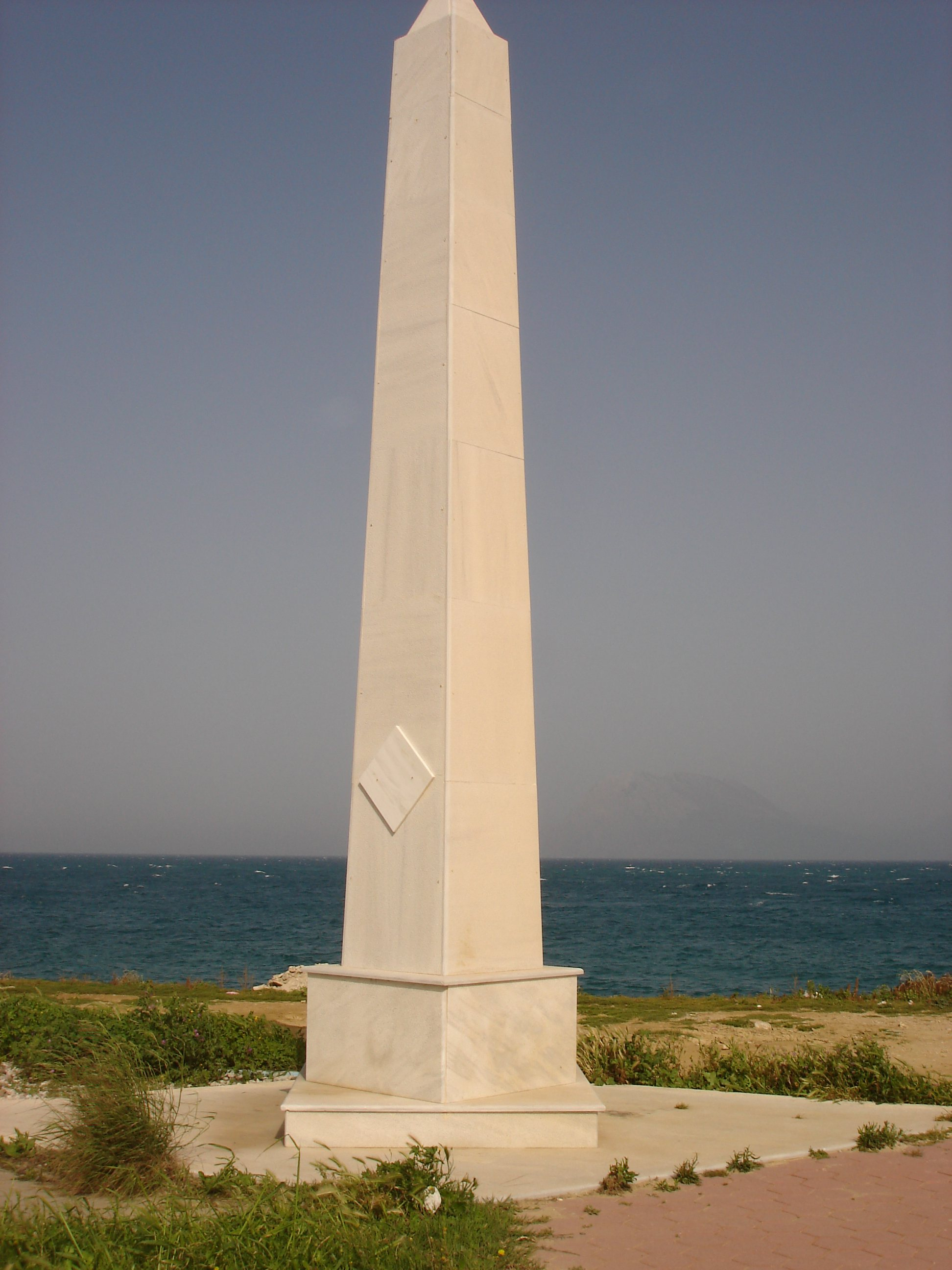 Mediterranean Games: Patra candidate city for 2009